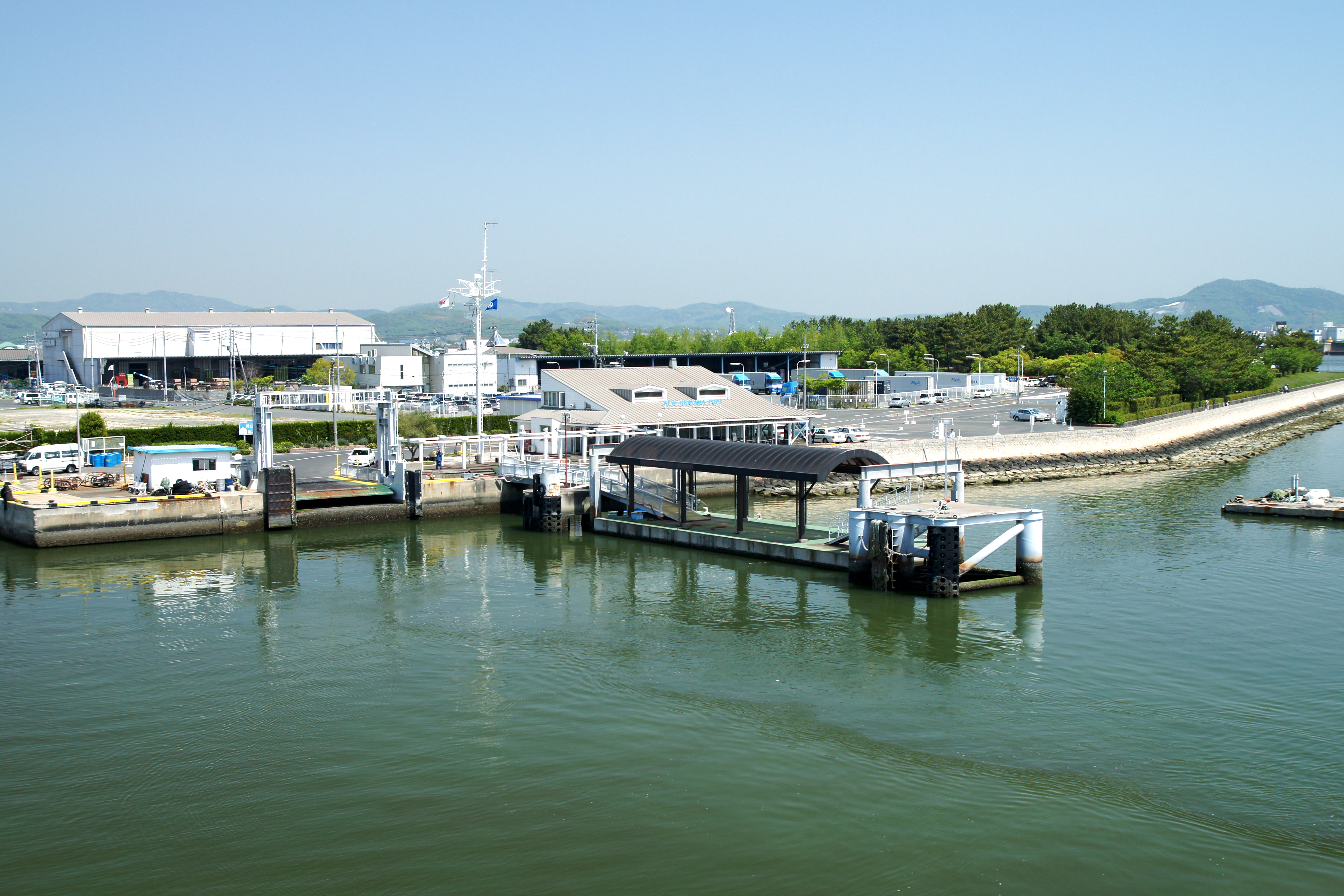 Shin-Okayama_Port in Okayama, Okayama prefecture, Japan